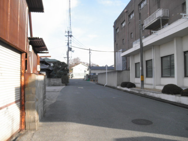 Shibatown Mikicity Hyogopref